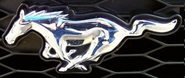 Ford Mustang 2005 logo